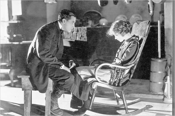 Richard Barthelmess and Lillian Gish in "Way Down East" in 1920.